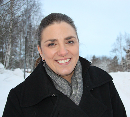 Anna Troberg